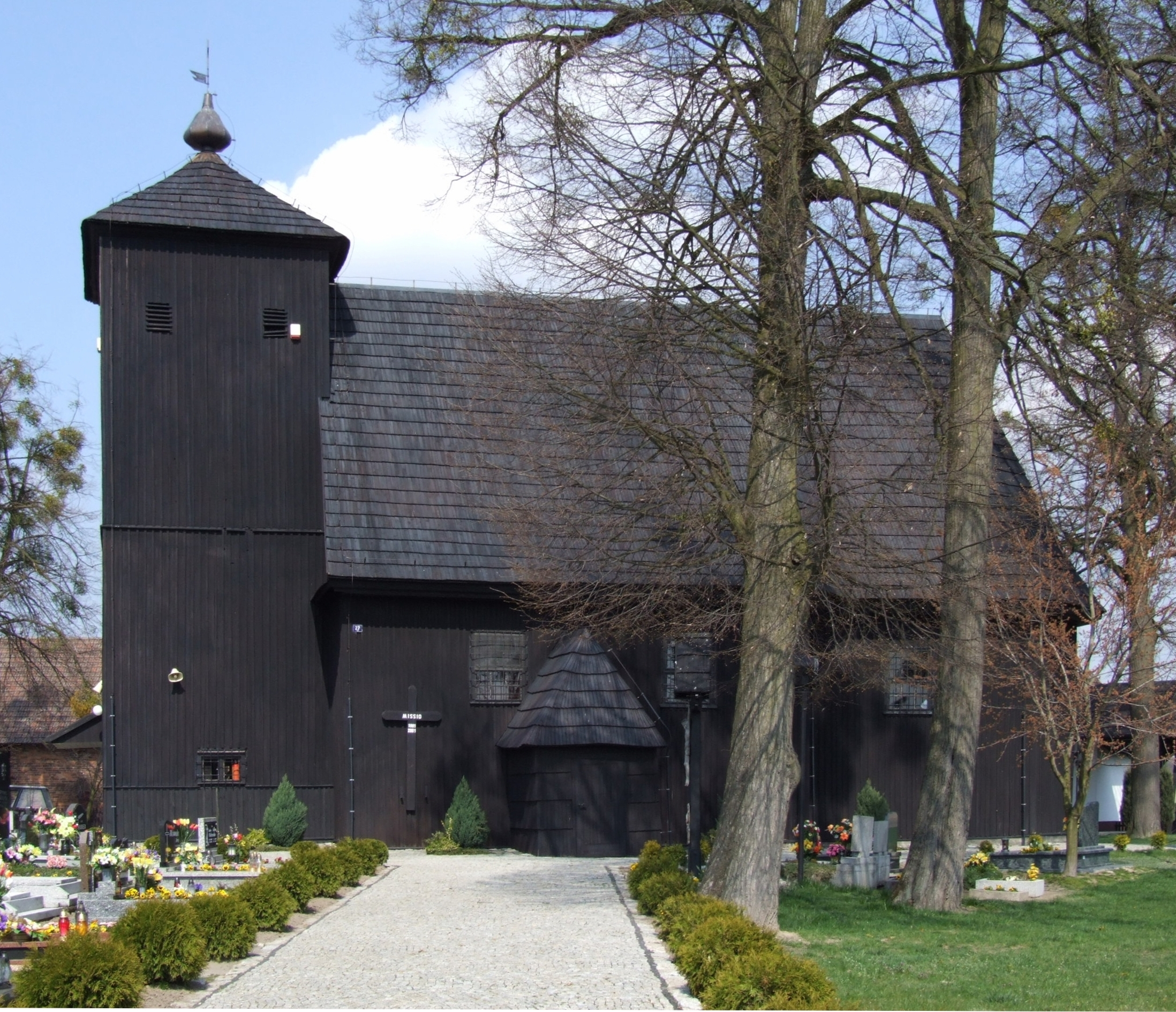 Saint Nicholas wooden church in Jamy (Jamm), Upper Silesia